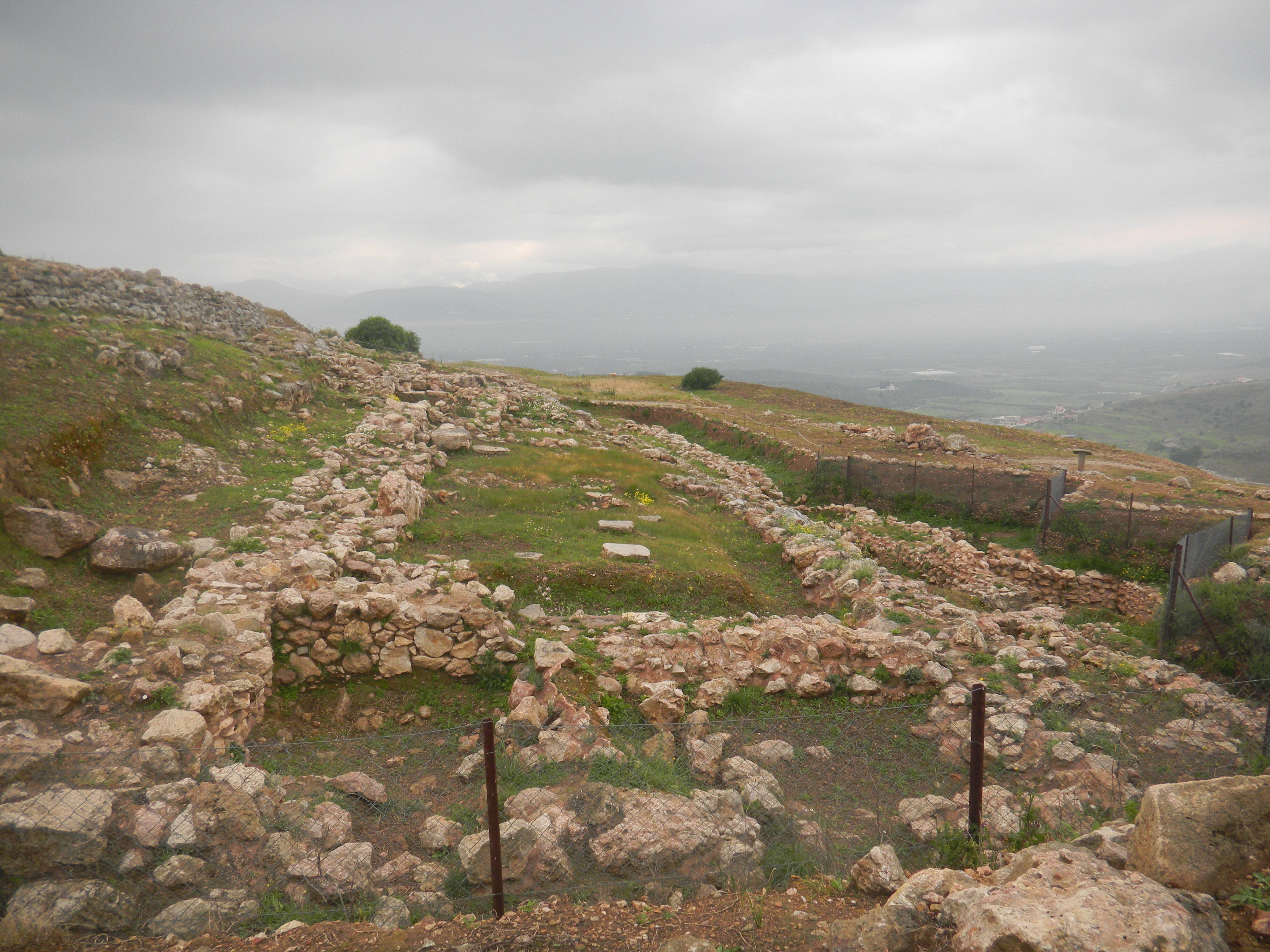 Megaron Complex of the Mycenaean city of Midea, in Argolid.